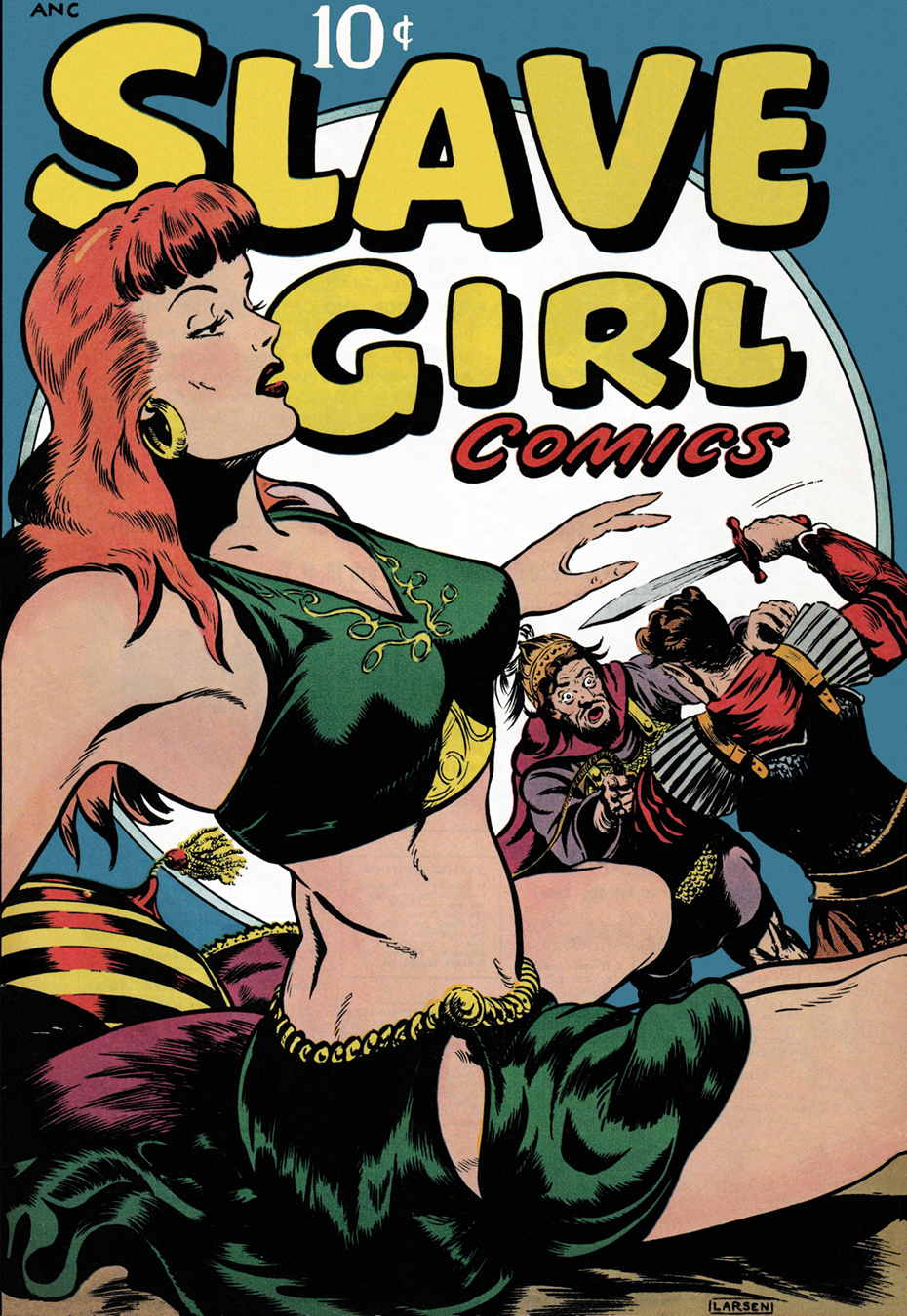 Cover of Slave Girl Comics #1, February, 1949